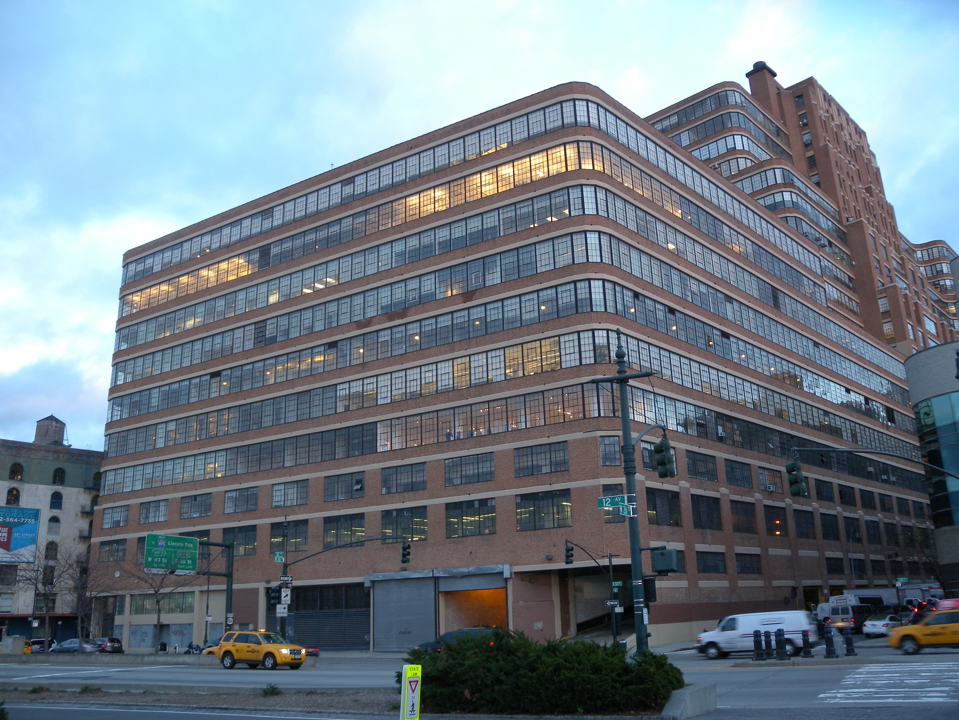 Looking east across West Side Highway at Starrett-Lehigh Building near sunset of a cloudy day.